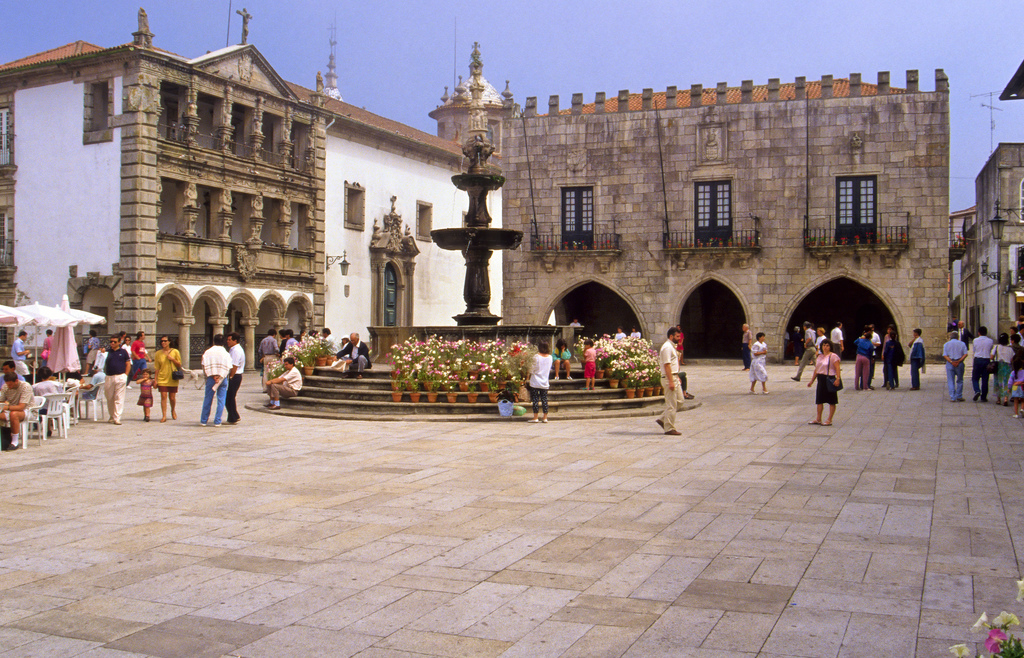 Main square of Viana do Castelo, Portugal